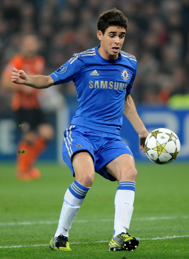 Brazilian football player Oscar dos Santos Emboaba Júnior during Champions League match FK Shakhtar Donetsk vs Chelsea FC